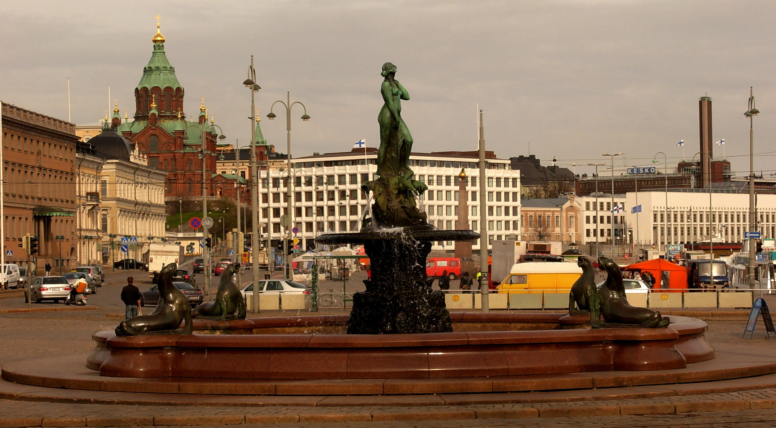 Havis Amanda statue in Helsinki, Finland